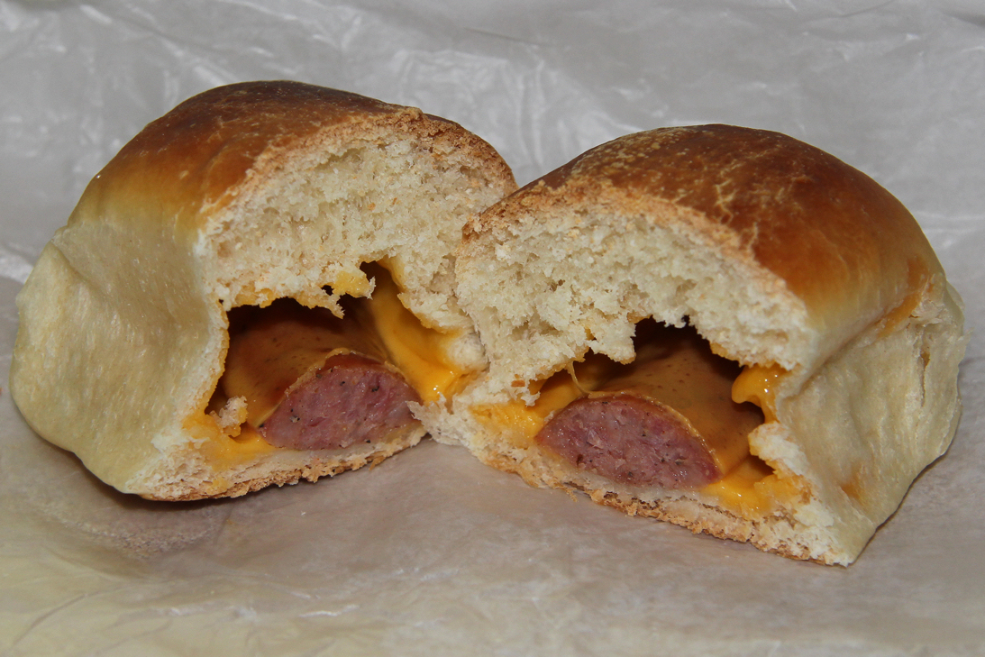 A traditional sausage klobasnek with cheese added from Little Czech Bakery, West, Texas, United States.